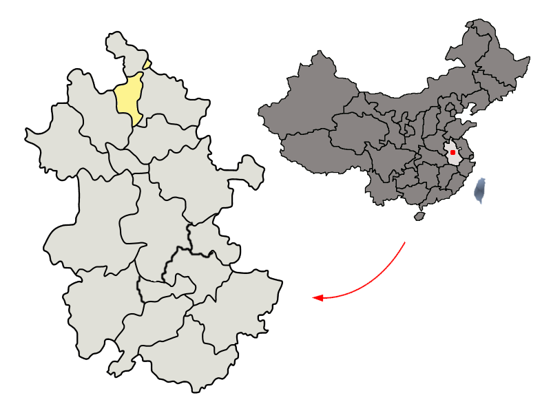 Location of Huaibei Prefecture (yellow) within Anhui Province of China Map drawn in december 2007 using various sources, mainly : Anhui Province administrative regions GIS data: 1:1M, County level, 1990 Anhui Counties map from